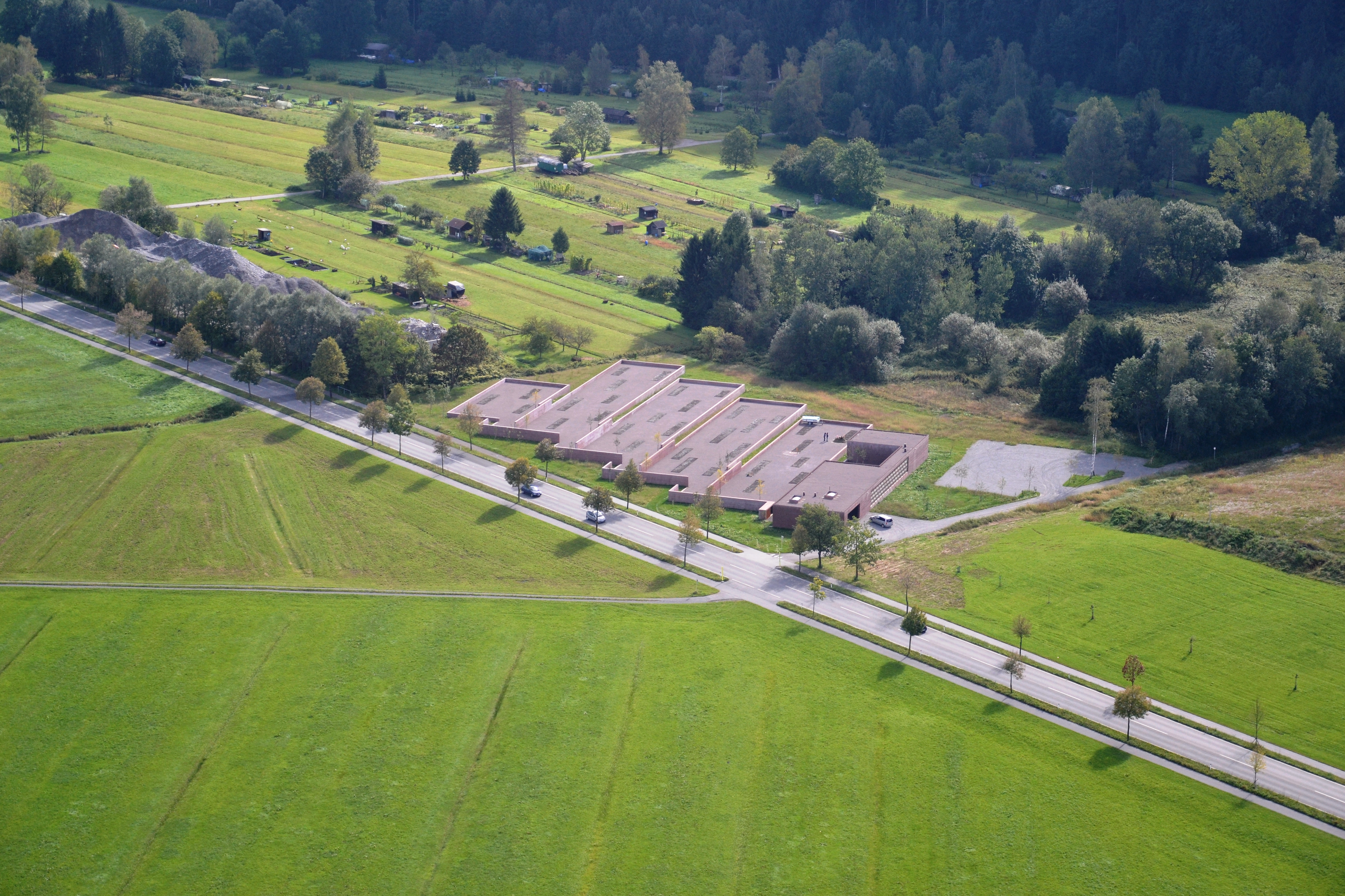 View of the Islamic Cemetery of Altach in Austria from helicopter (seen from the west).